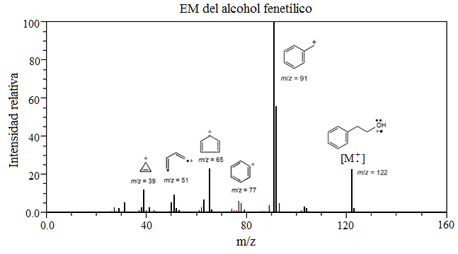 MS of phenetyl alcohol